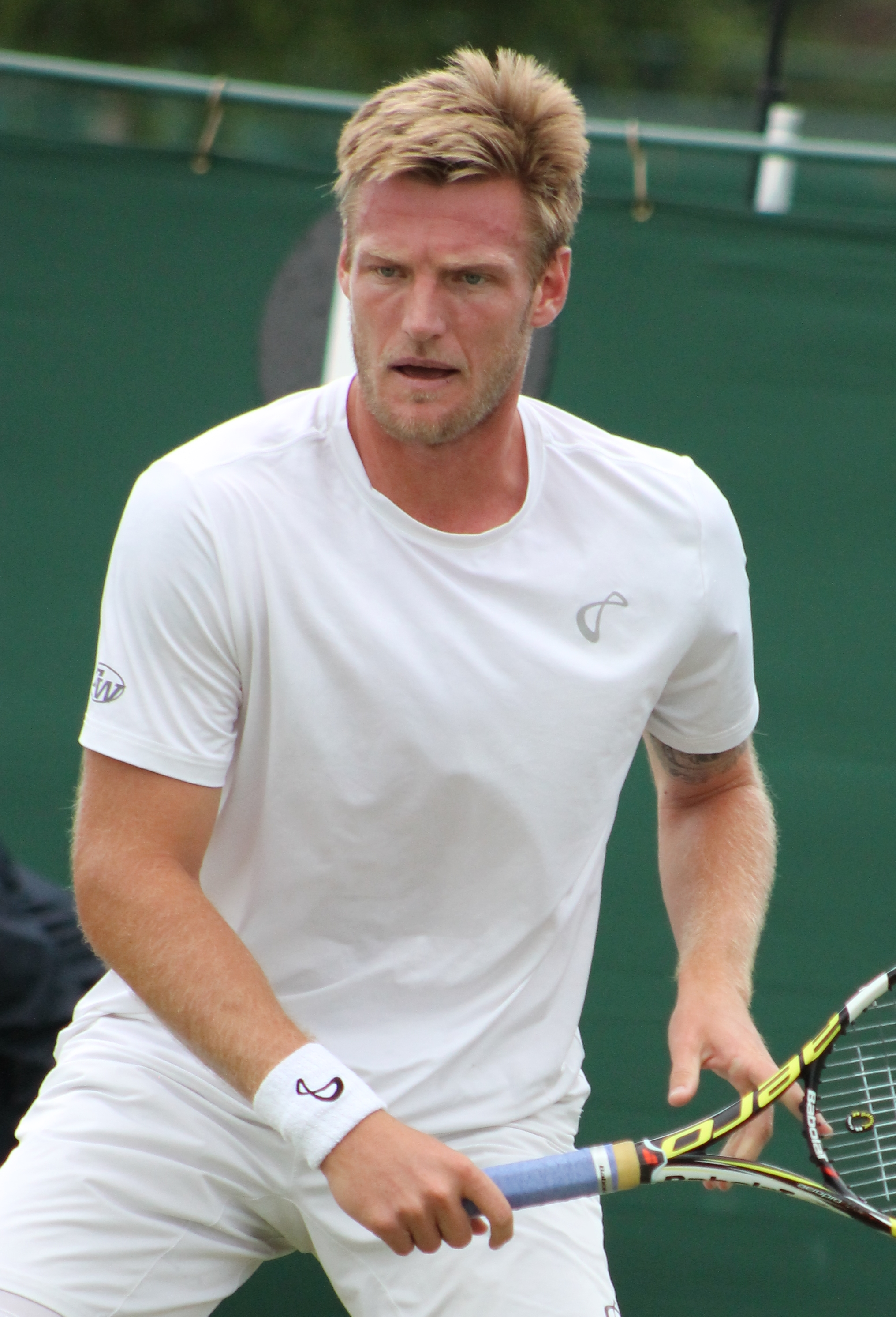 Groth WMQ14 (15)